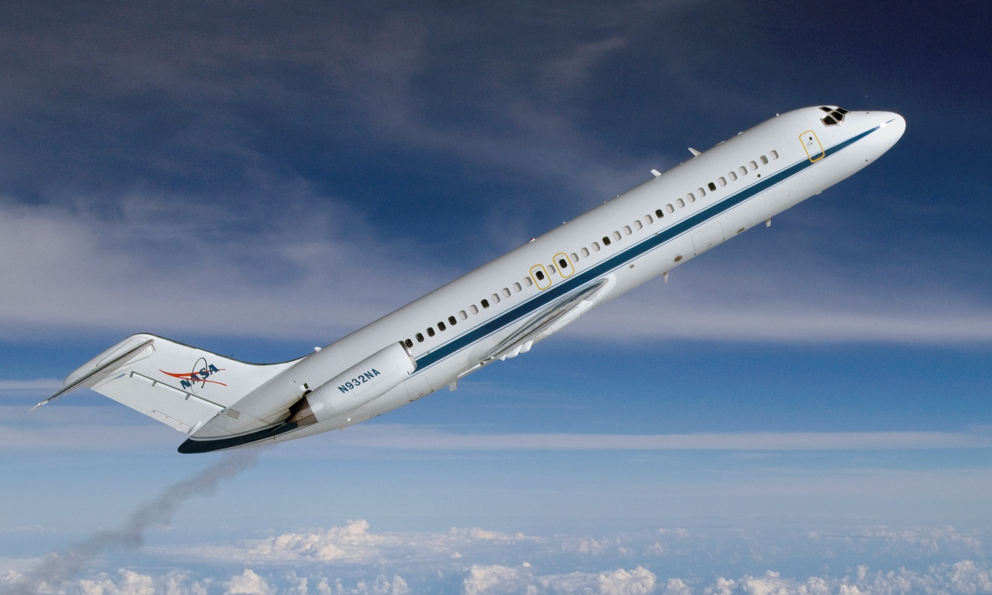 A NASA DC-9 reduced-gravity aircraft is featured in this image during a parabolic flight photographed from a T-38 aircraft. The aircraft, based at Ellington Field near Johnson Space Center, flies a series of parabola patterns over the Gulf of Mexico to afford opportunities for astronauts and investigators to experience brief periods of weightlessness. Registry info